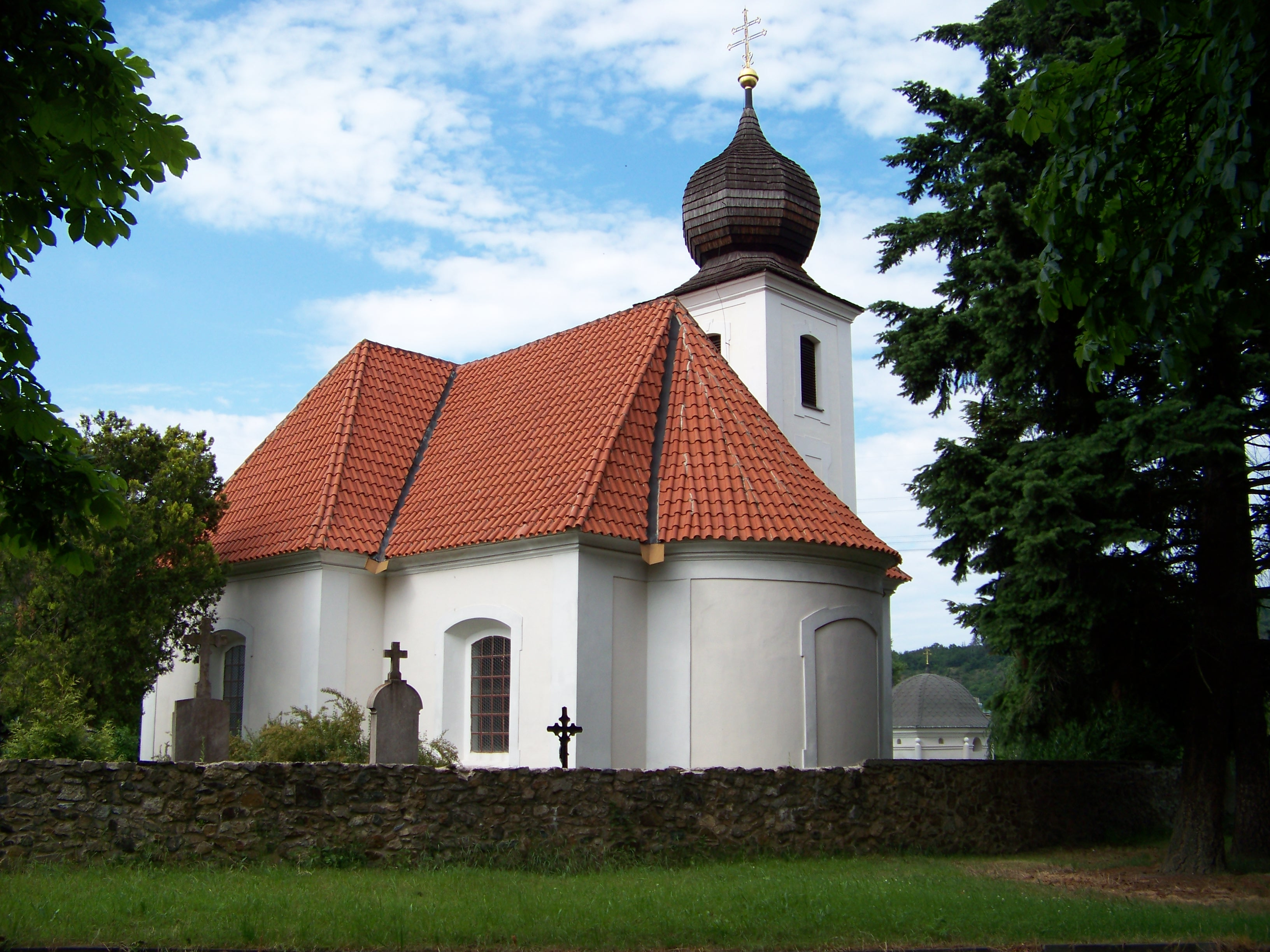 Vrané nad Vltavou, Prague-West District, Central Bohemian Region, the Czech Republic. V Zídkách street, Saint George Church.